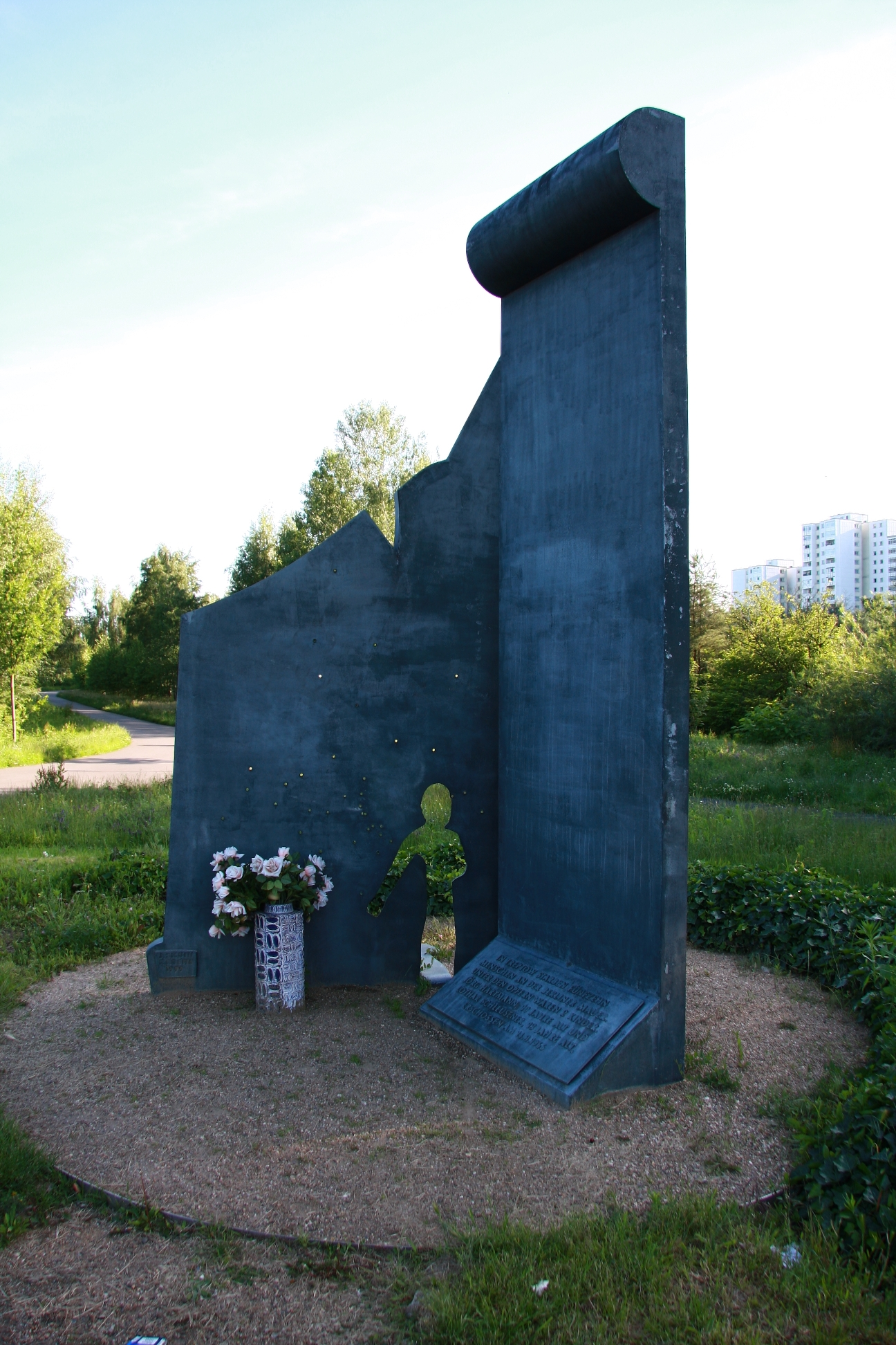 Memorial for the victims of the Berlin Wall Jörg Hartmann and Lothar Schleusener in Berlin-Plänterwald